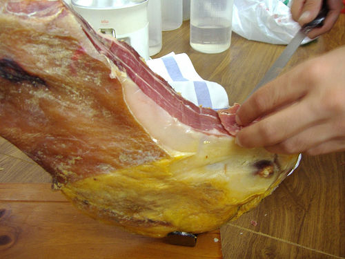 Jamón serrano. Dry-cured ham from Spain, curved in thin slices. Barcelona, Spain.